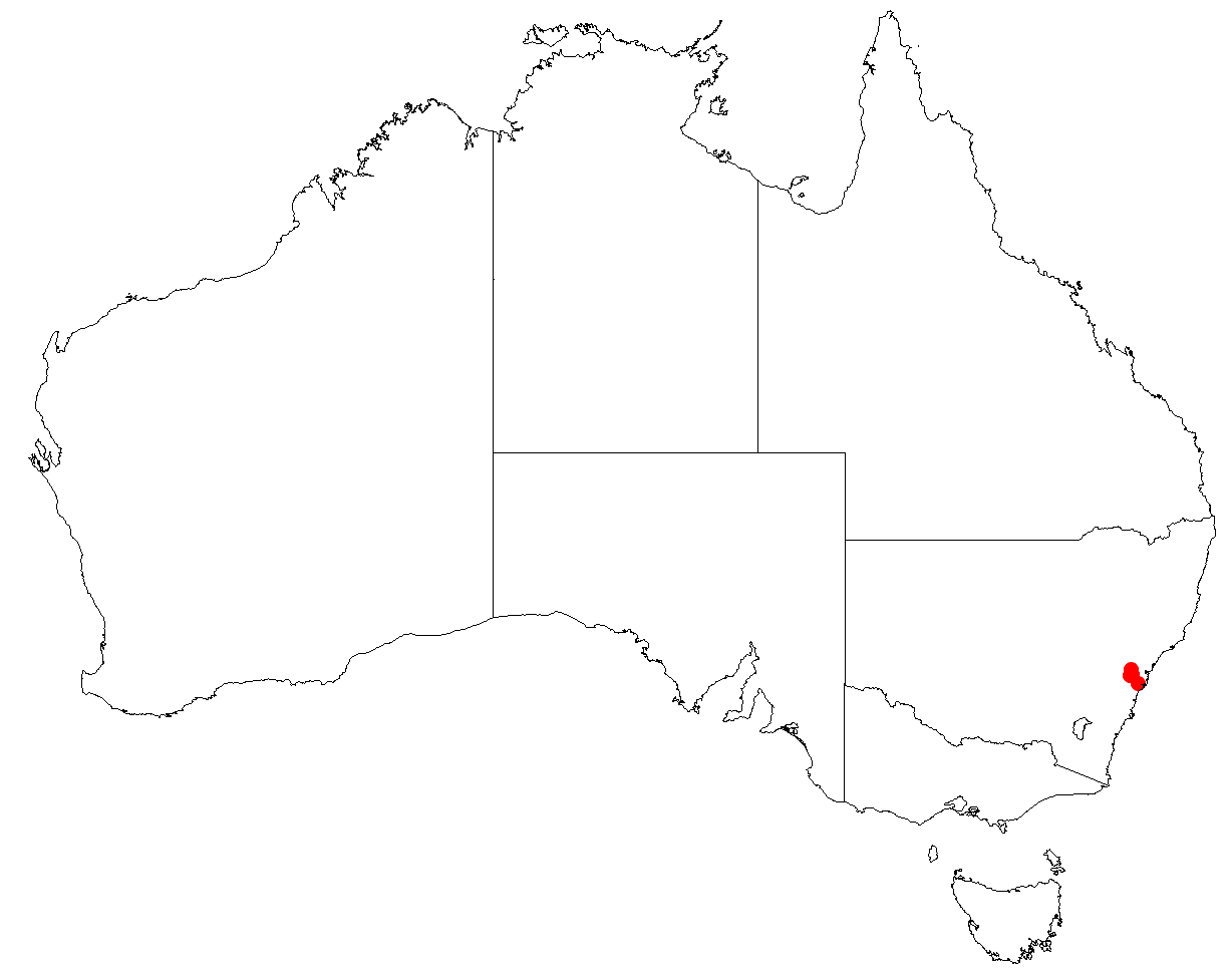 Allocasuarina glareicola occurrence data from Australasian Virtual Herbarium download 4 July 2018